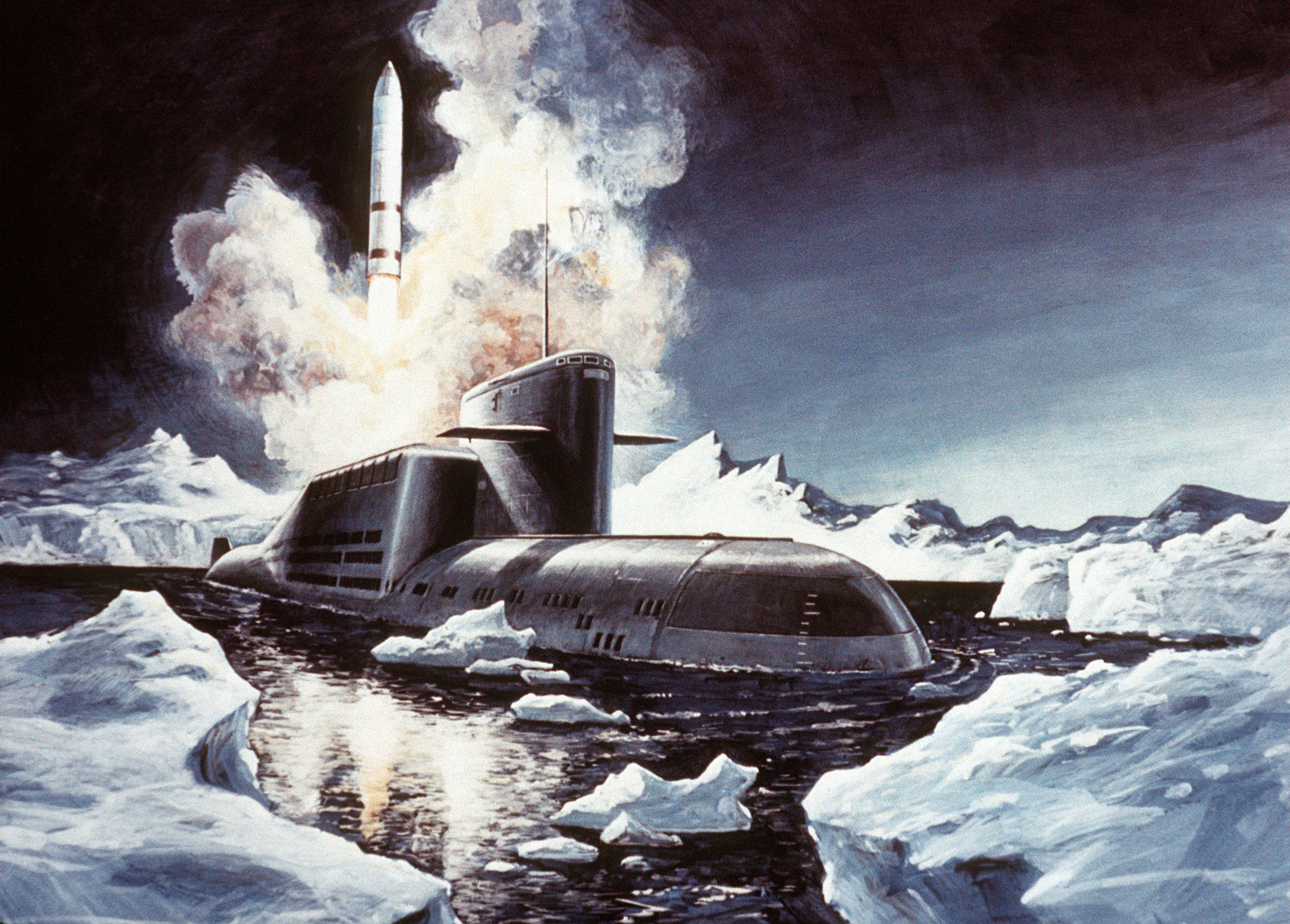 Artist's concept of a Soviet SS-NX-23 ballistic missile being launched from a Delta III-class nuclear-powered ballistic missile submarine.